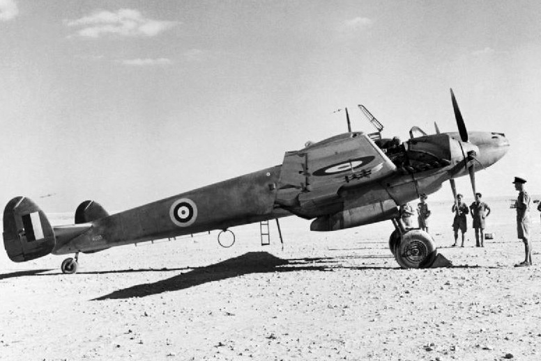 Recovered German Messerschmitt Bf 110D "The Belle of Berlin" in British markings on a landing ground in North Africa.